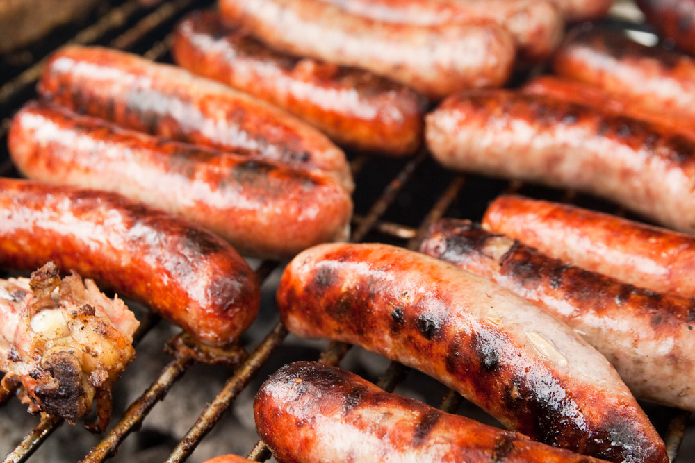 In the United States, Italian sausage is a style of pork sausage noted for its seasoning of fennel and/or anise, containing at least 85% meat and no more than 35% fat. Made in sweet and hot styles, this kind of sausage is generally not cured. A typical method of cooking in grilling, as depicted here.